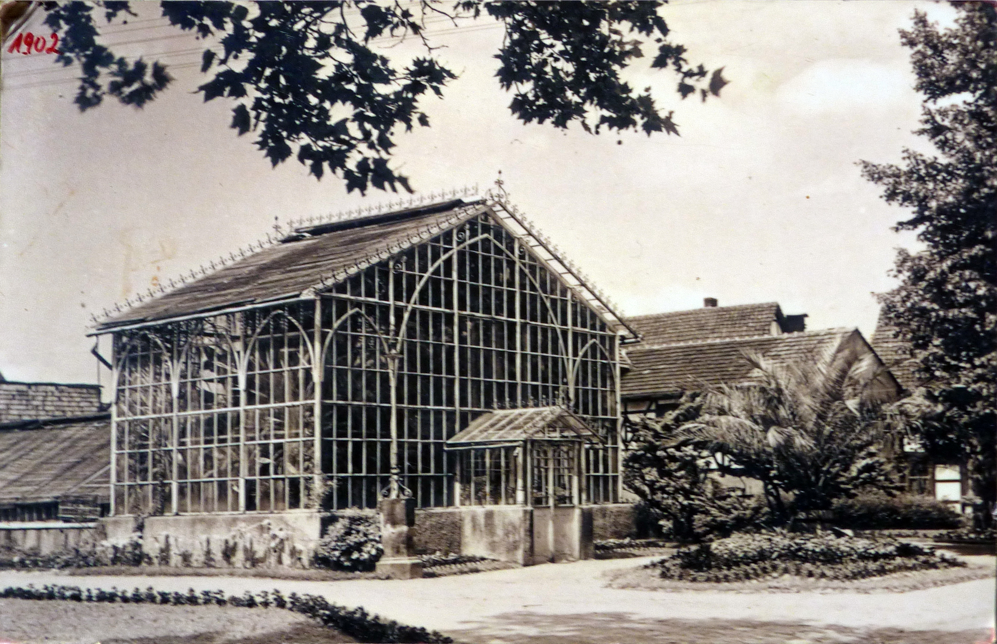 The greenhouse for tropical plants at the Deutsche Kolonialschule, Witzenhausen, in 1902